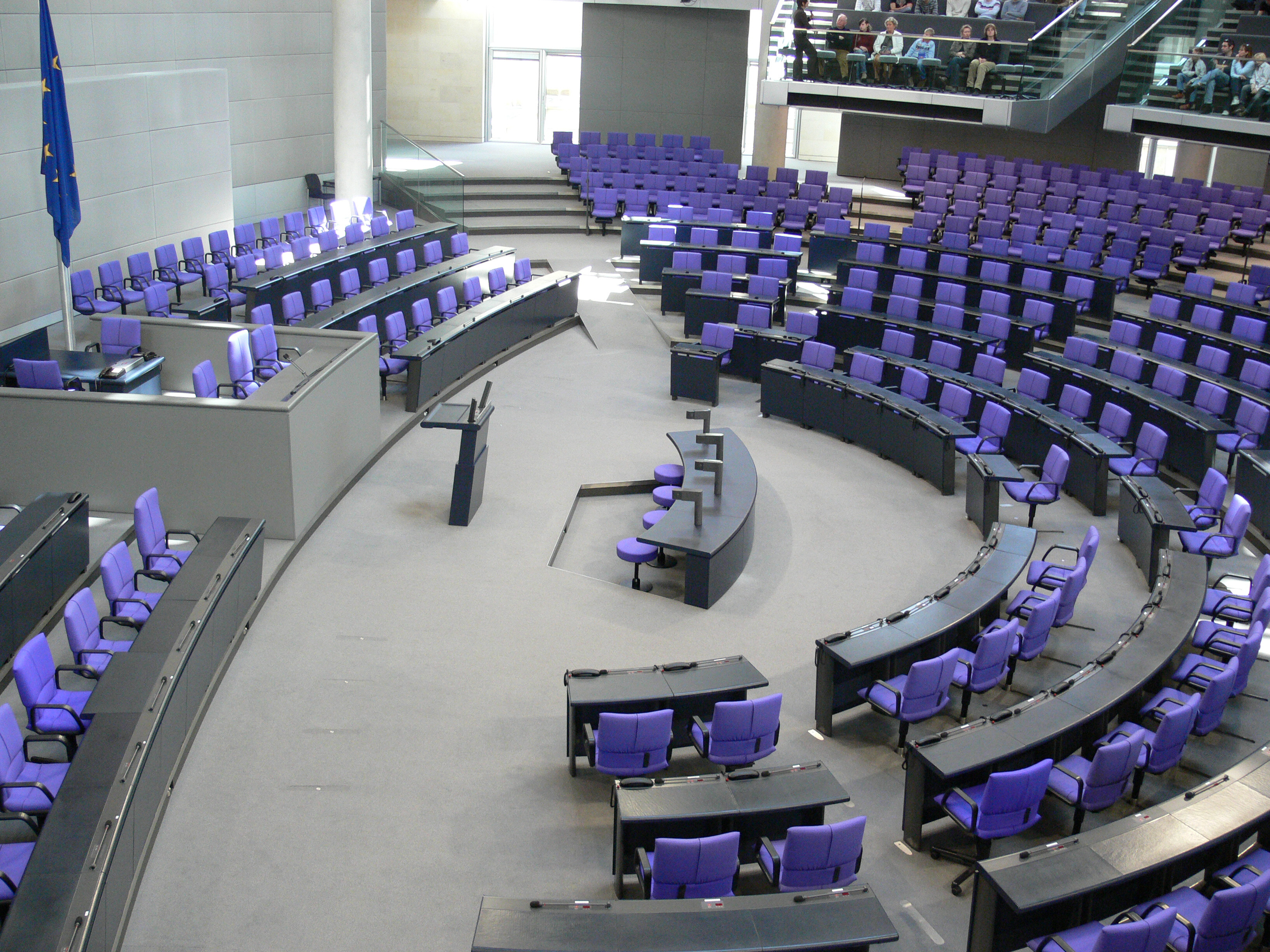 Bundestag plenar hall; Reichstag building, Berlin.